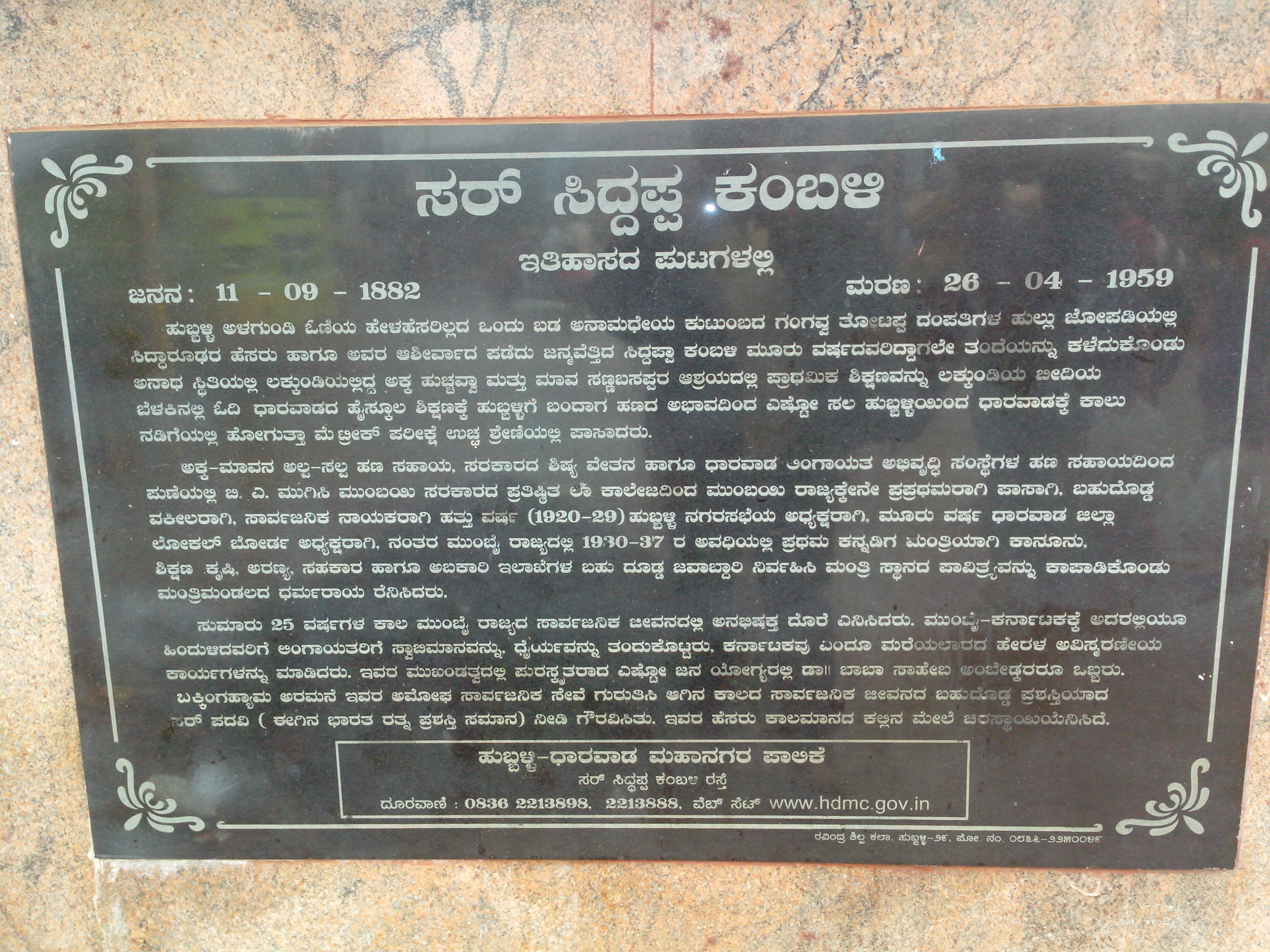 Sir Siddappa Kambali Statue's description, next to Hubli-Dharawada Municipal Corporation, Hubli